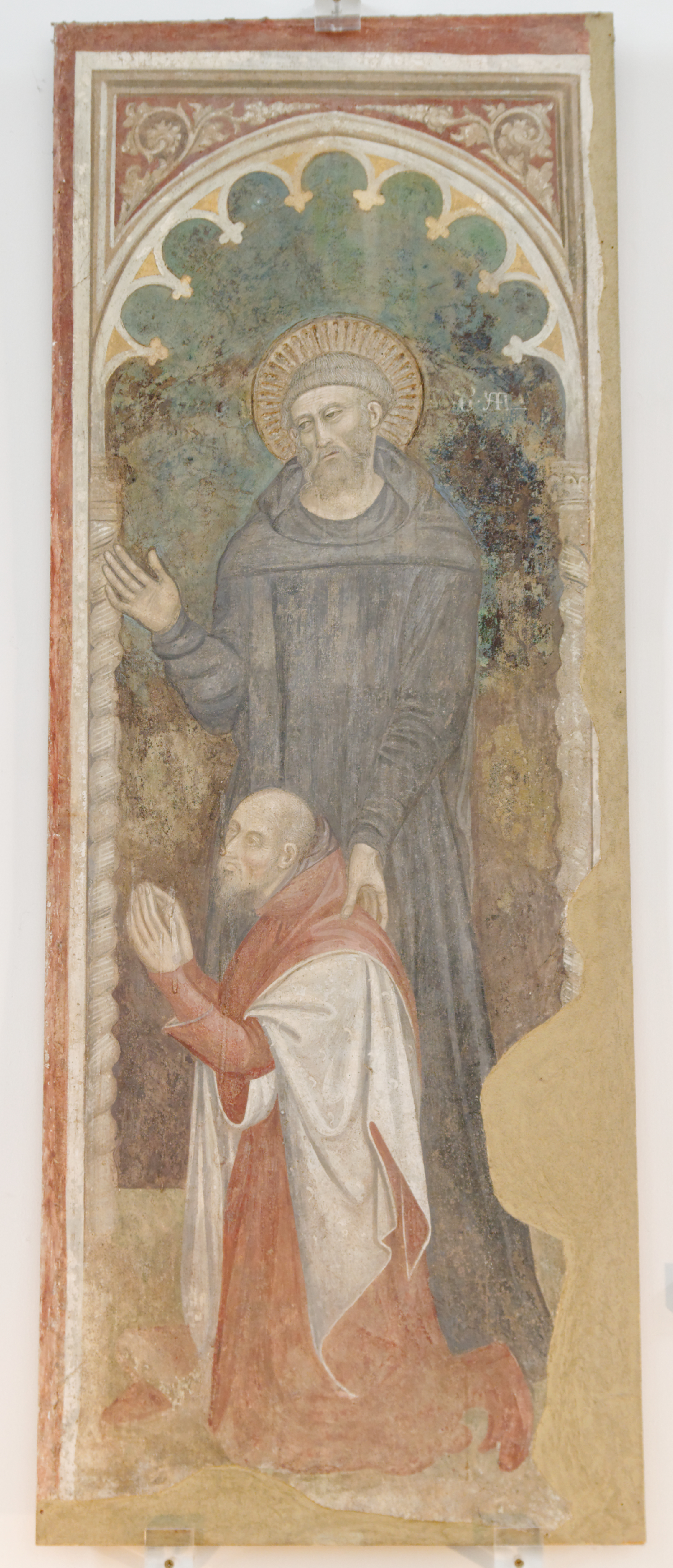 Right panel of a triptych with Raimondo del Balzo presented by St William of Gellone to (main panel) St Peter Celestine (pope Celestine V).